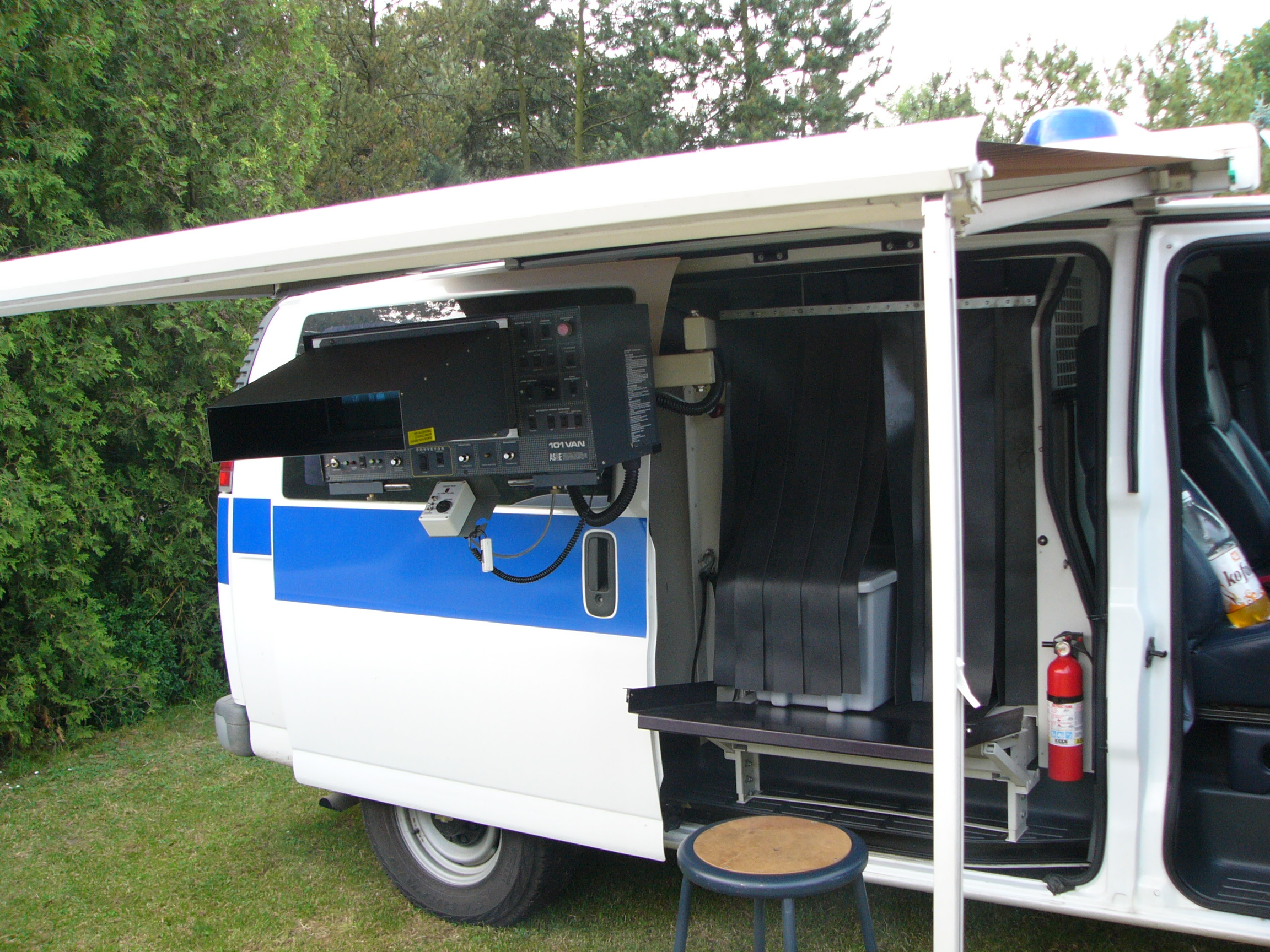 car of Customs Administration of the Czech with a detector 101 VAN. (